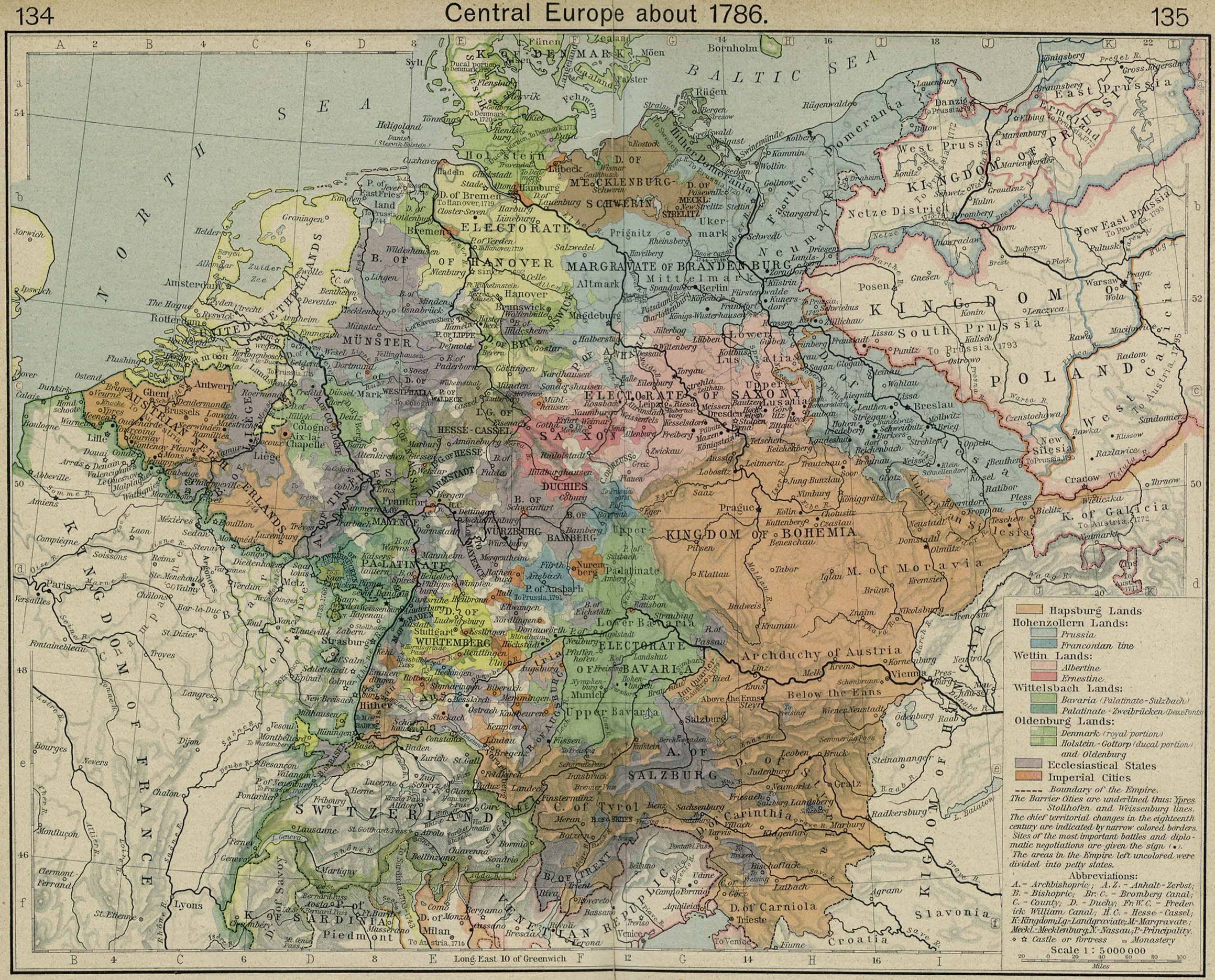 Map of Central Europe in 1786